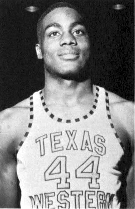 American basketball player Harry Flournoy Of the UTEP Miners from the 1966 UTEP student yearbook.